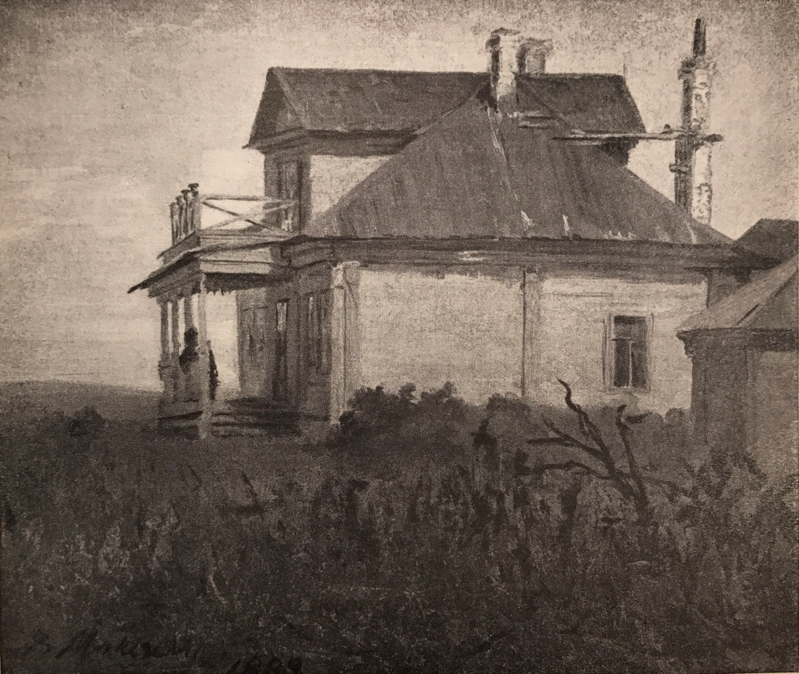 All in the past, study for a painting (by Vassily Maximov, 1880s)